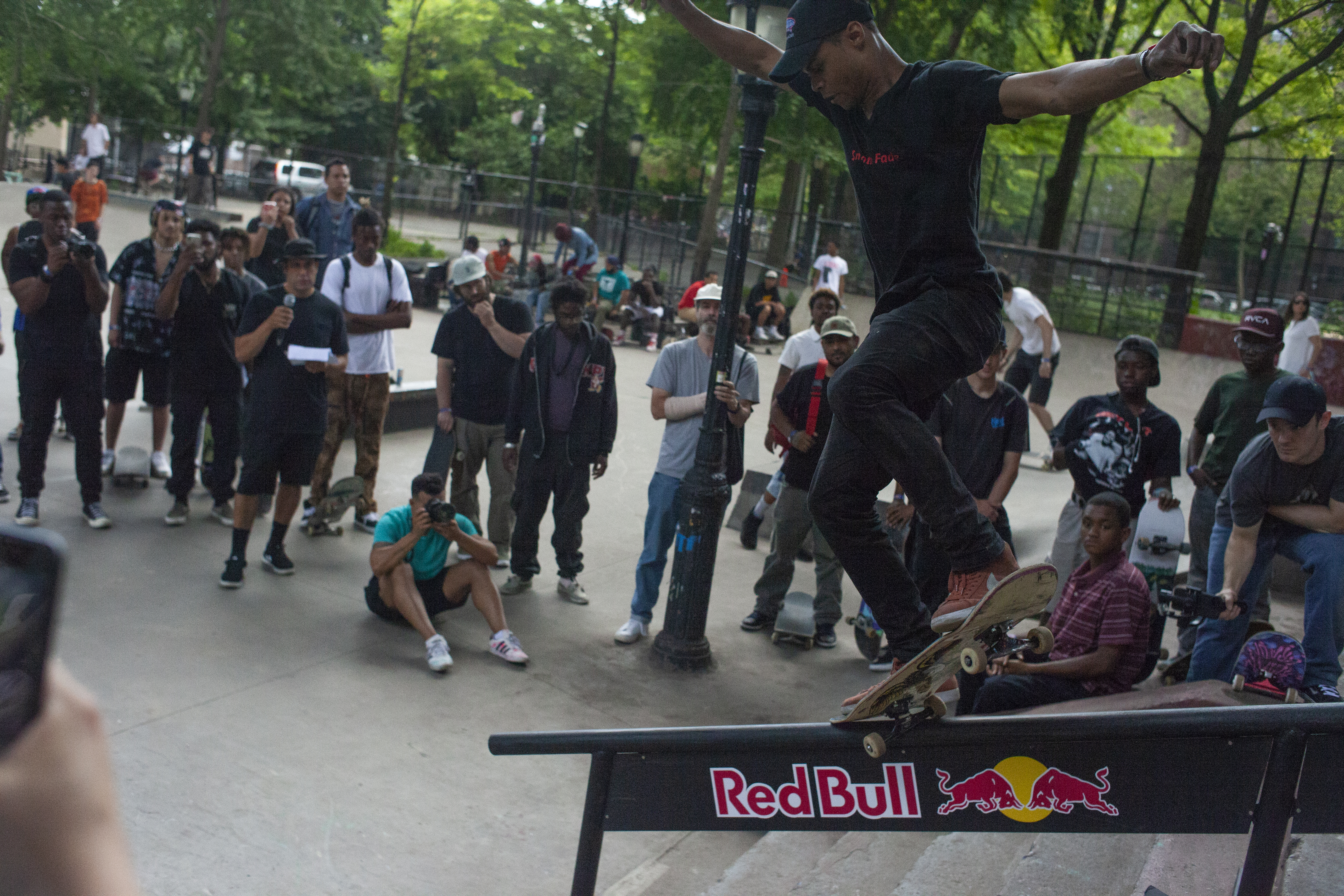 Andre Beverly with the frontside crooked grind at LES skatepark during the best trick contest hosted by Red Bull.